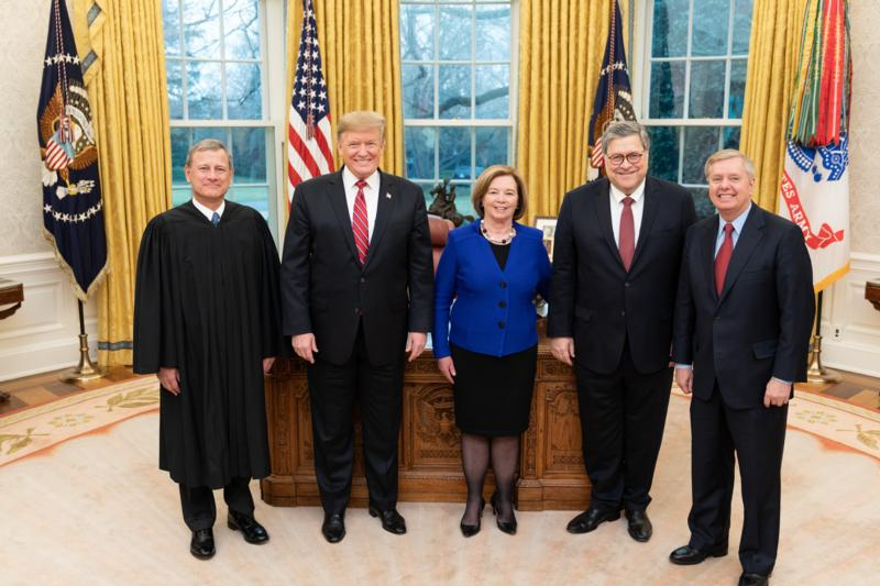 WASHINGTON – U.S. Senator Lindsey Graham (R-South Carolina) today joined President Donald Trump for the swearing-in of Attorney General William Barr. Graham said: “I was honored to be invited to attend the swearing in of William Barr as our new Attorney General by President Trump and his team. “A great day for the Barr family, Trump Administration, Department of Justice, Rule of Law and our nation as a whole. -Official White House Photo/ Shealah Craighead (1976–) DescriptionAmerican photographer and photojournalistDate of birth 4 May 1976 Location of birth Connecticut Work location Washington, D.C.Authority control : Q28536820 VIAF: 14152820076400680290 LCCN: no2018071926 WorldCat creator QS:P170,Q28536820